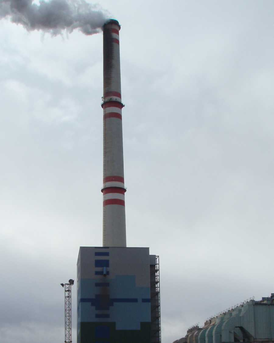 Power station Prunéřov I, Czech Republic